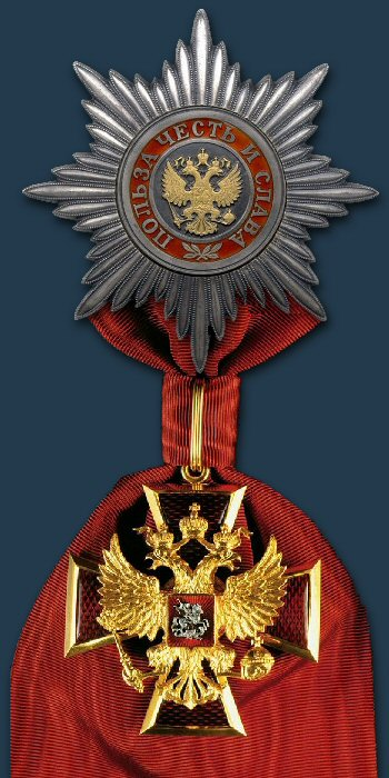 Russian Federation, Order Of Service To The Fatherland 1st class. Established by Decree No. 442 of 2 March 1994. Amended by Decree No. 19 of 6 January 1999. Awarded for "outstanding contributions to the state, labour achievements and significant contributions to the defence of the State". Crossed golden swords are worn on the suspension when awarded for distinction in combat.